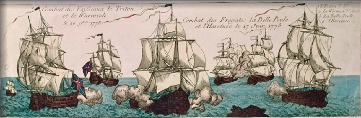 Naval Engagements Between the French and English Fleets During the American Revolution in 1778.